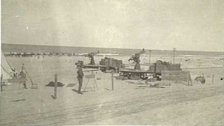 AWM caption : "Mounted anti-aircraft guns at an Australian Light Horse camp beside the seaside at El Arish." Comment : The guns are QF 13 pounder 6 cwt. They have an additional oil reservoir mounted at the end of the recuperator housing above the barrel, which was unusual for 13 pounders.